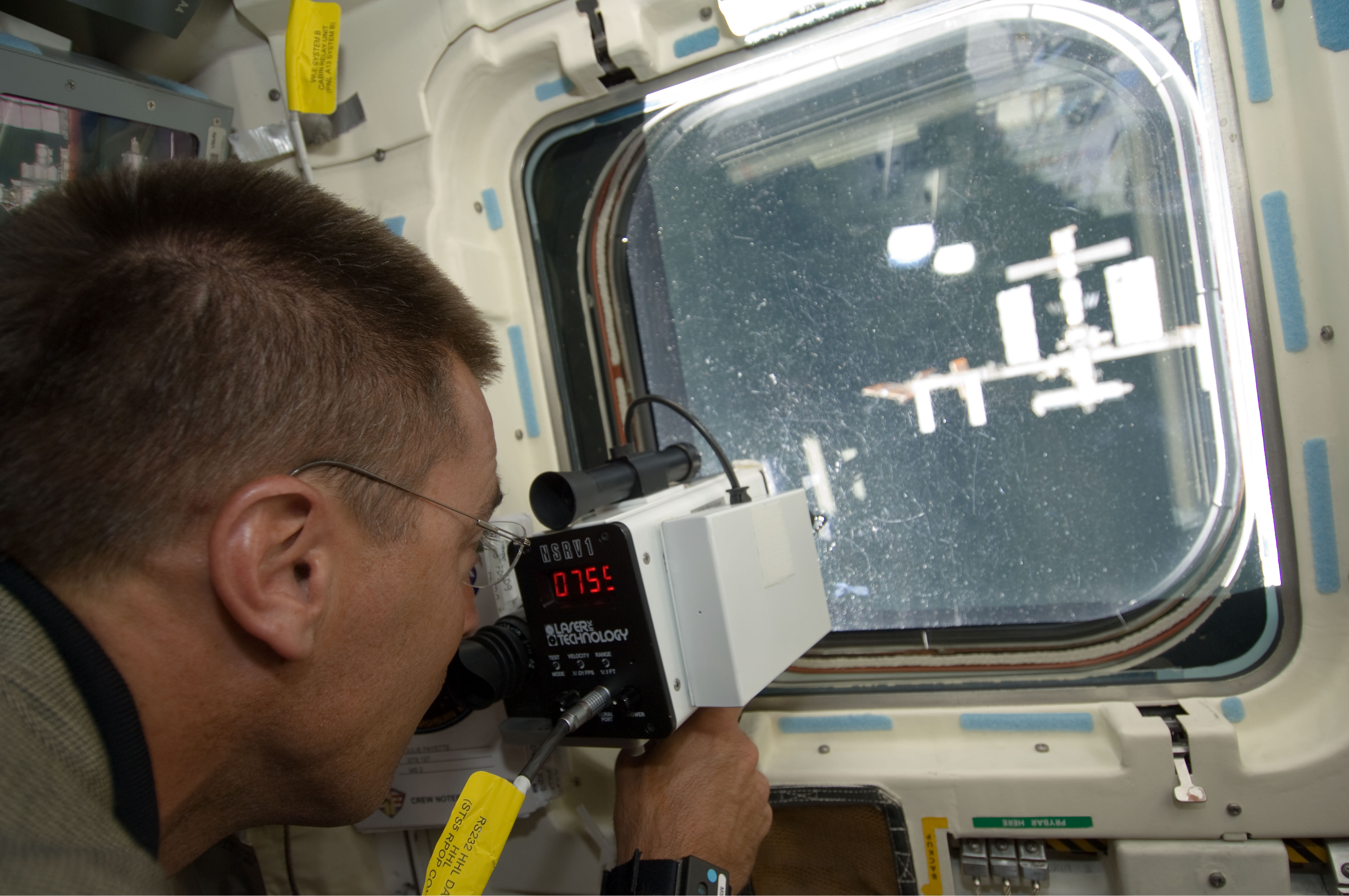 Astronaut Christopher Cassidy, STS-127 mission specialist, on Endeavour's flight deck, uses a range finding device to determine distance between the shuttle and the International Space Station during rendezvous and docking activities on flight day 3.